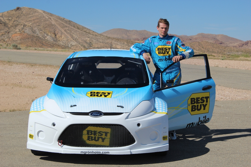 Marcus Grönholm with his Ford Fiesta Rallycross Supercar, set to compete in the 2012 Global RallyCross Championship for Team Best Buy Mobile Olsbergs MSE.